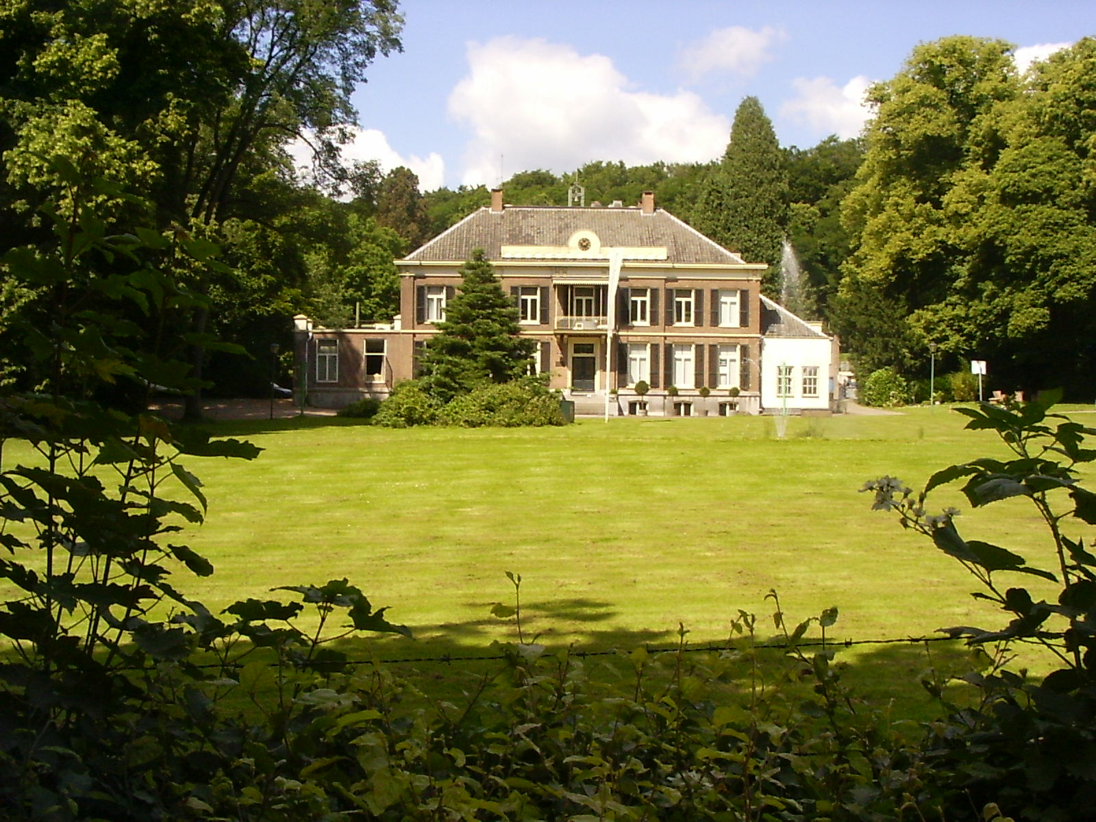 Mariendaal, main building, Oosterbeek